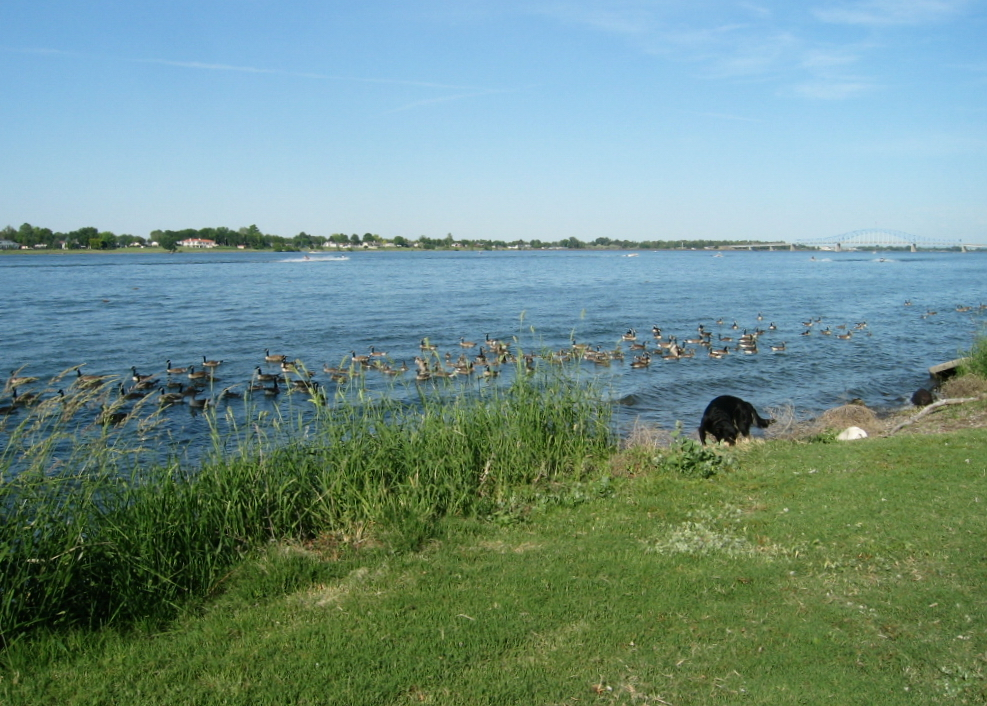 Columbia Park, Kennewick, Washington, Blue Bridge in the background.